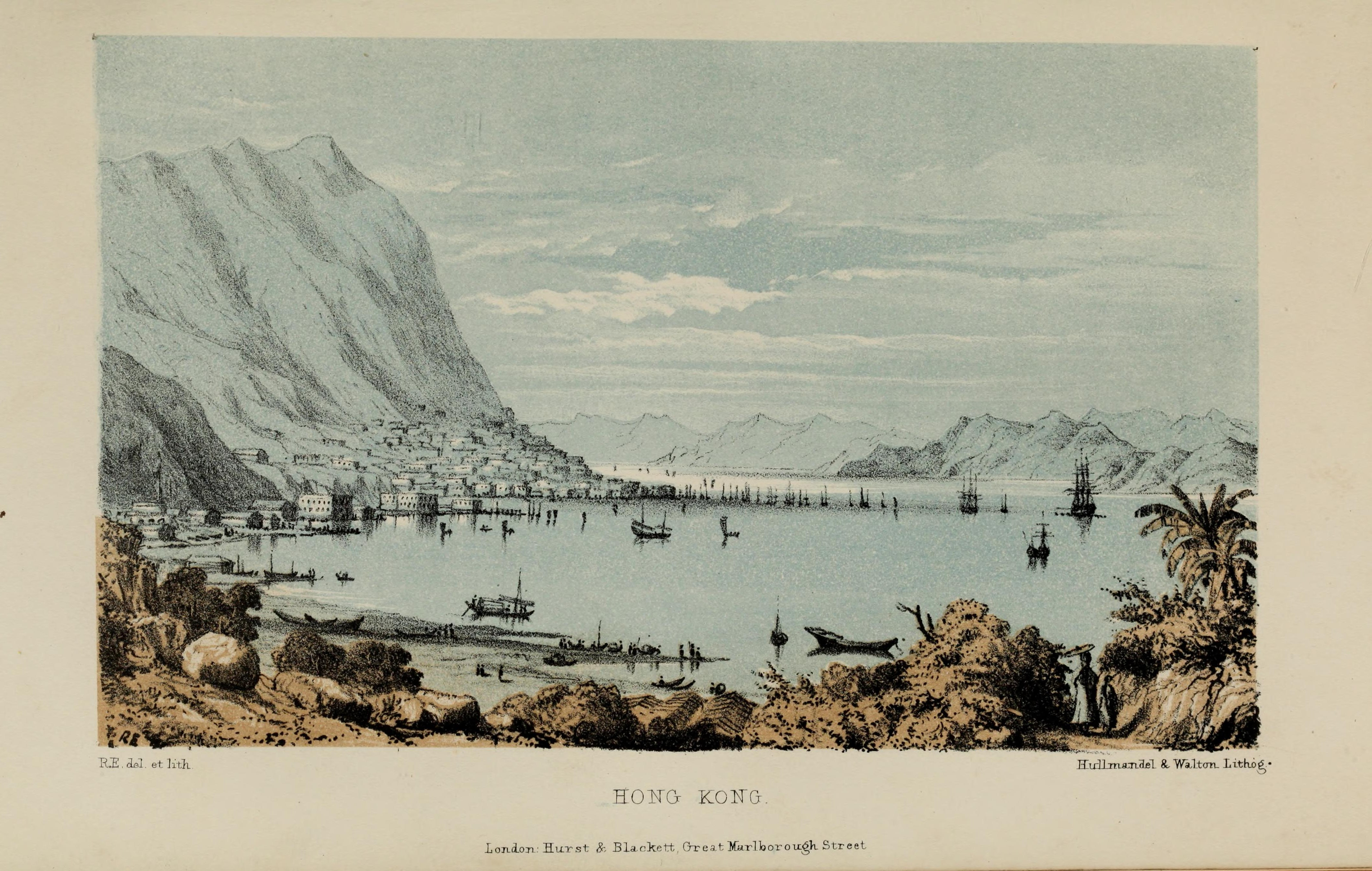 Hong Kong, watercolor painting by Robert Elwes (1819–1878), a wealthy young British gentleman from Norfolk. This print was published in 1854 by Hultmandel & Walton. Published by London: Hurst & Blackett, Great Malborough Street.